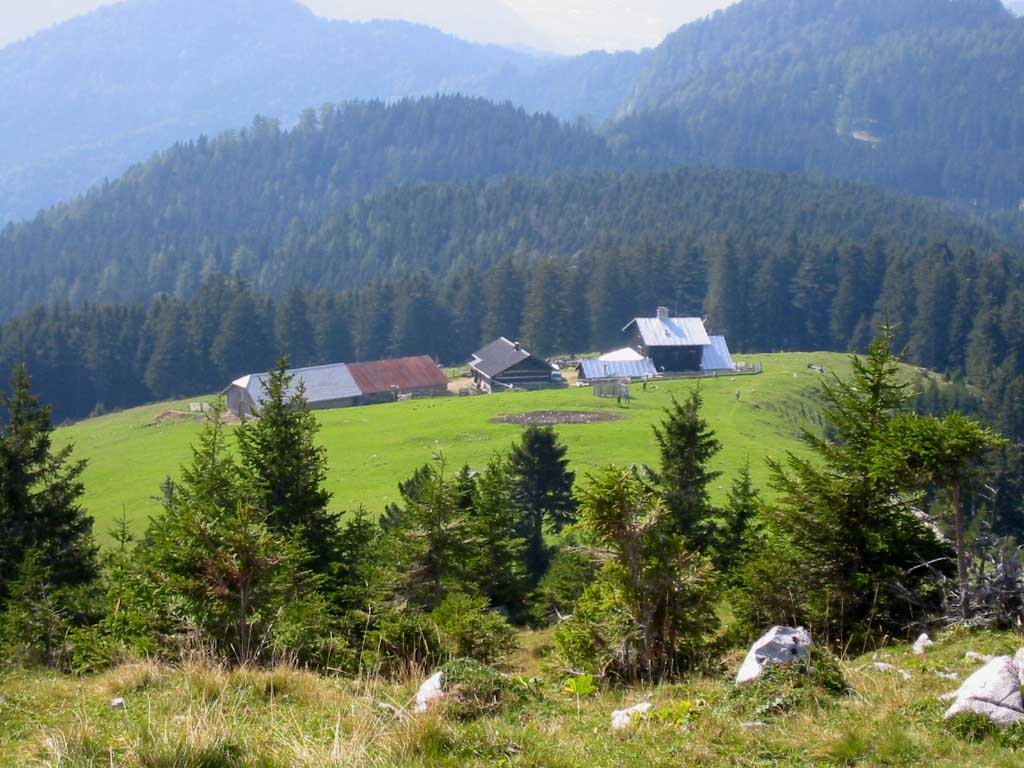 Alpine hut at Kofce, Košuta (Karavanke Alps), Slovenia (bordering Austria) photo:Ziga 10:46, 16 April 2007 (UTC)